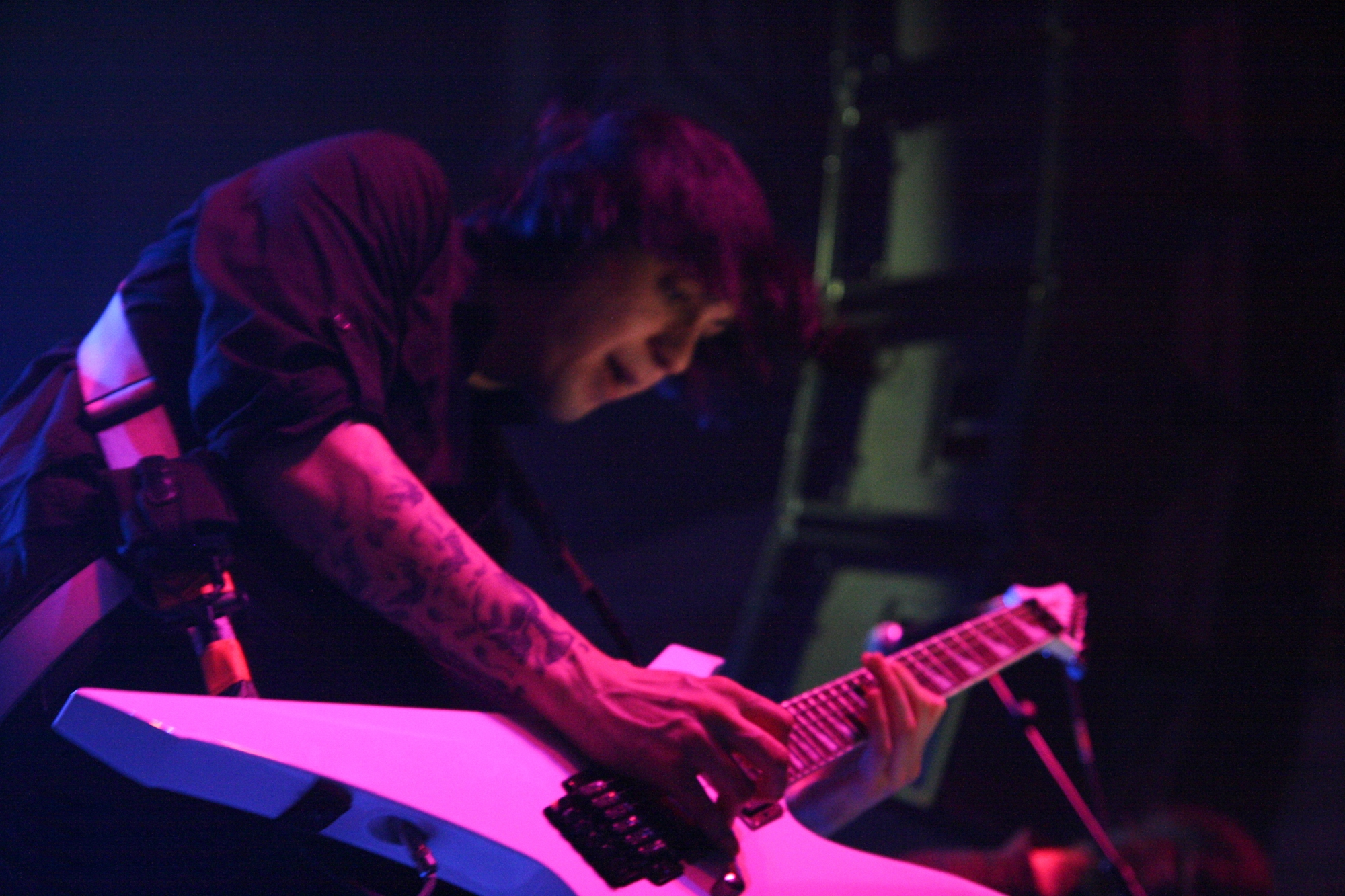 Alesana's guitarrist, Alex Torres, at Regency Ballroom.